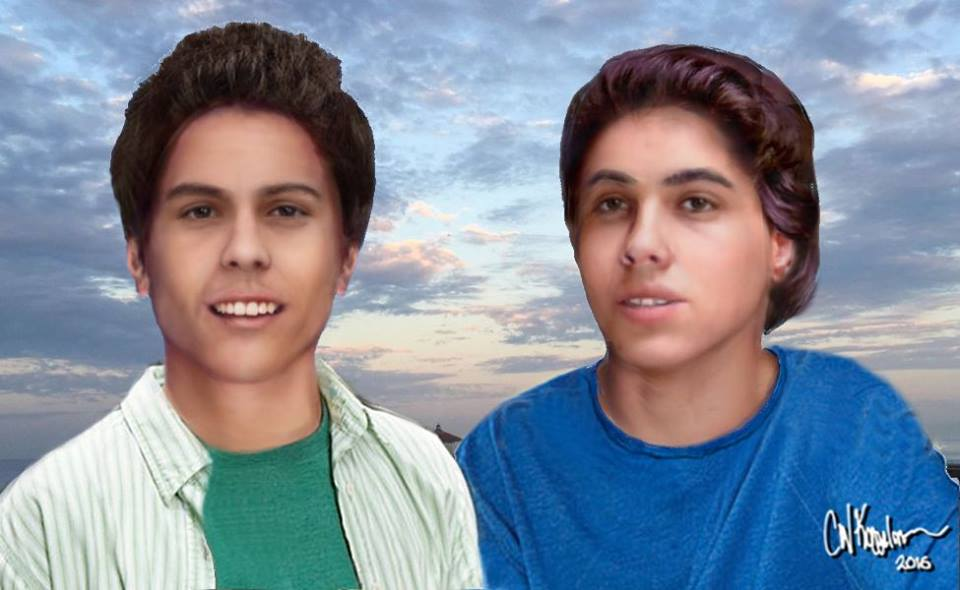 Forensic facial reconstruction of an unidentified murder victim found in California. The victim was shot and killed by gang members.